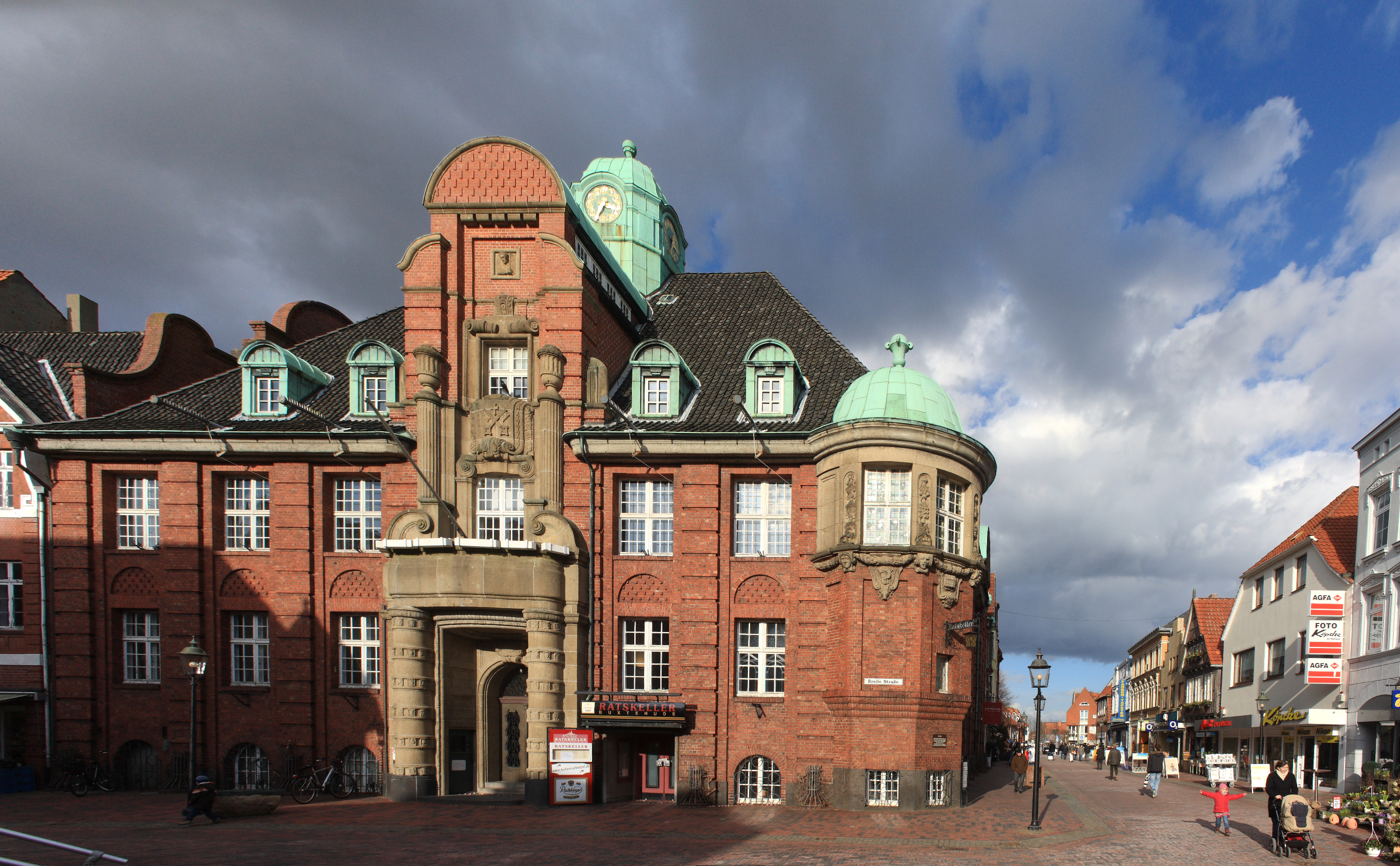 Town hall of Buxtehude.